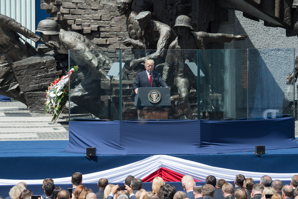 President Donald J. Trump | July 6. 2017 (Official White House Photo by Andrea Hanks)